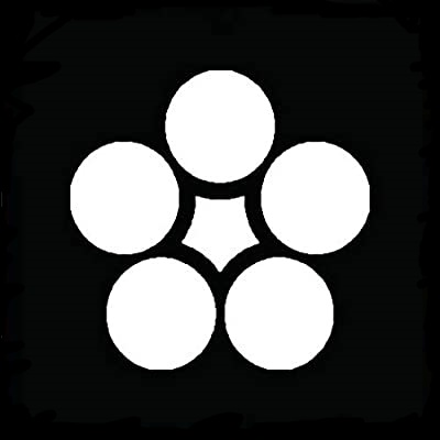 Crest plum blossom